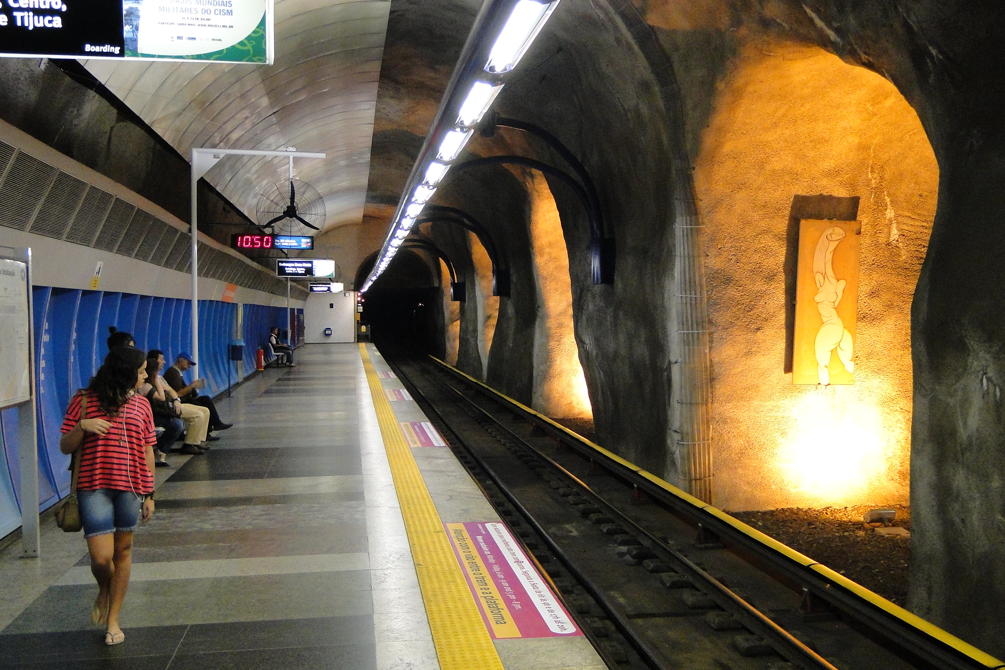 Inside Cardeal Arcoverde Metro Station - Rio de Janeiro - Brazil